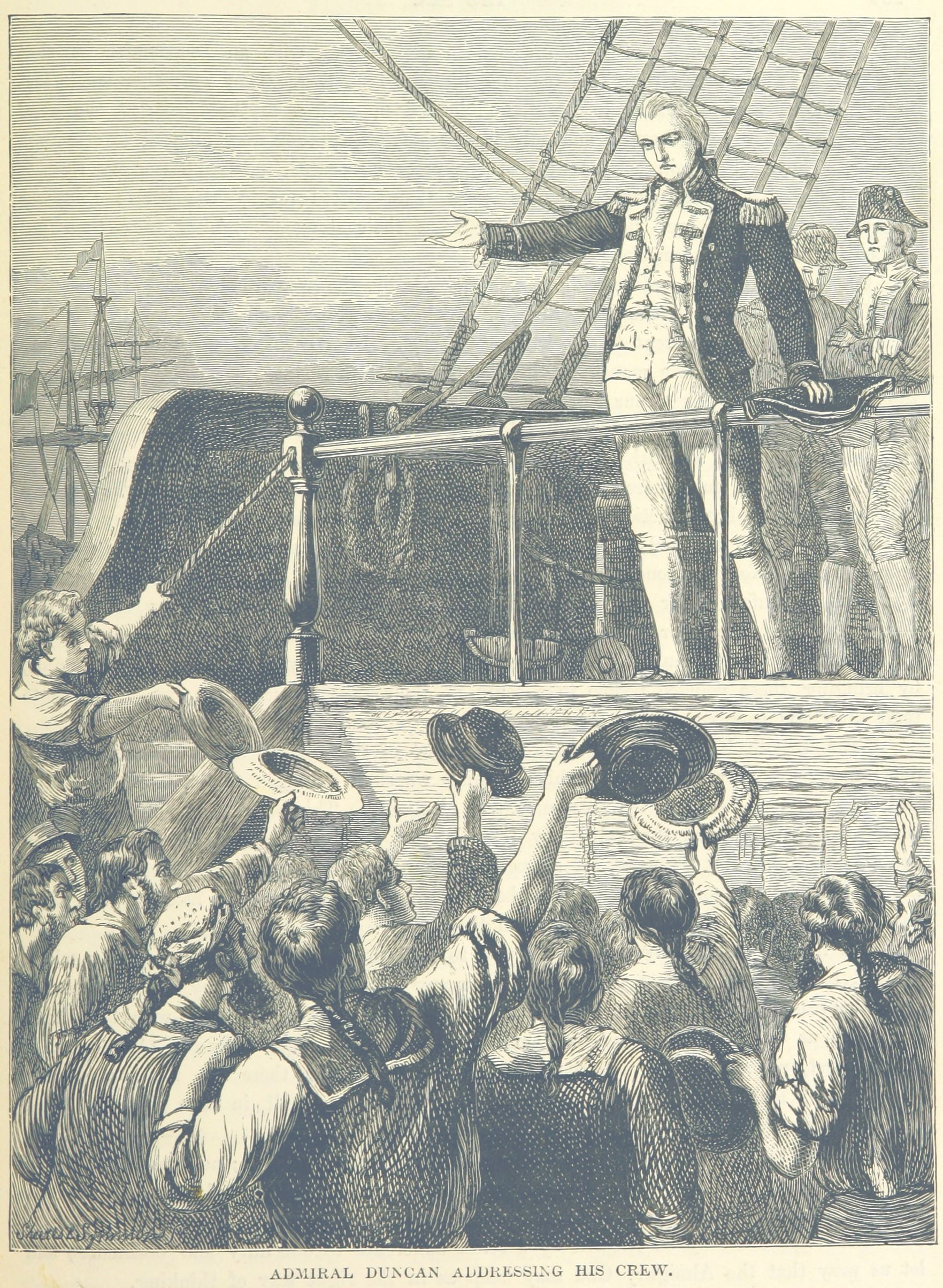 Adam Duncan speaks to his crew and convinces them not to join the Spithead and Nore mutinies.